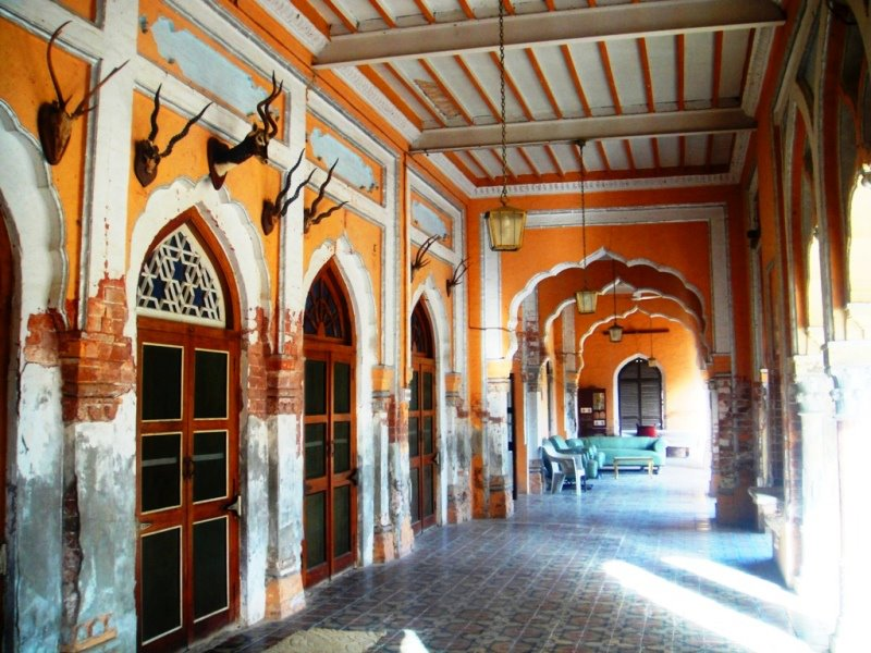 Faiz Mahal This is a photo of a monument in Pakistan identified as the SD-P-6